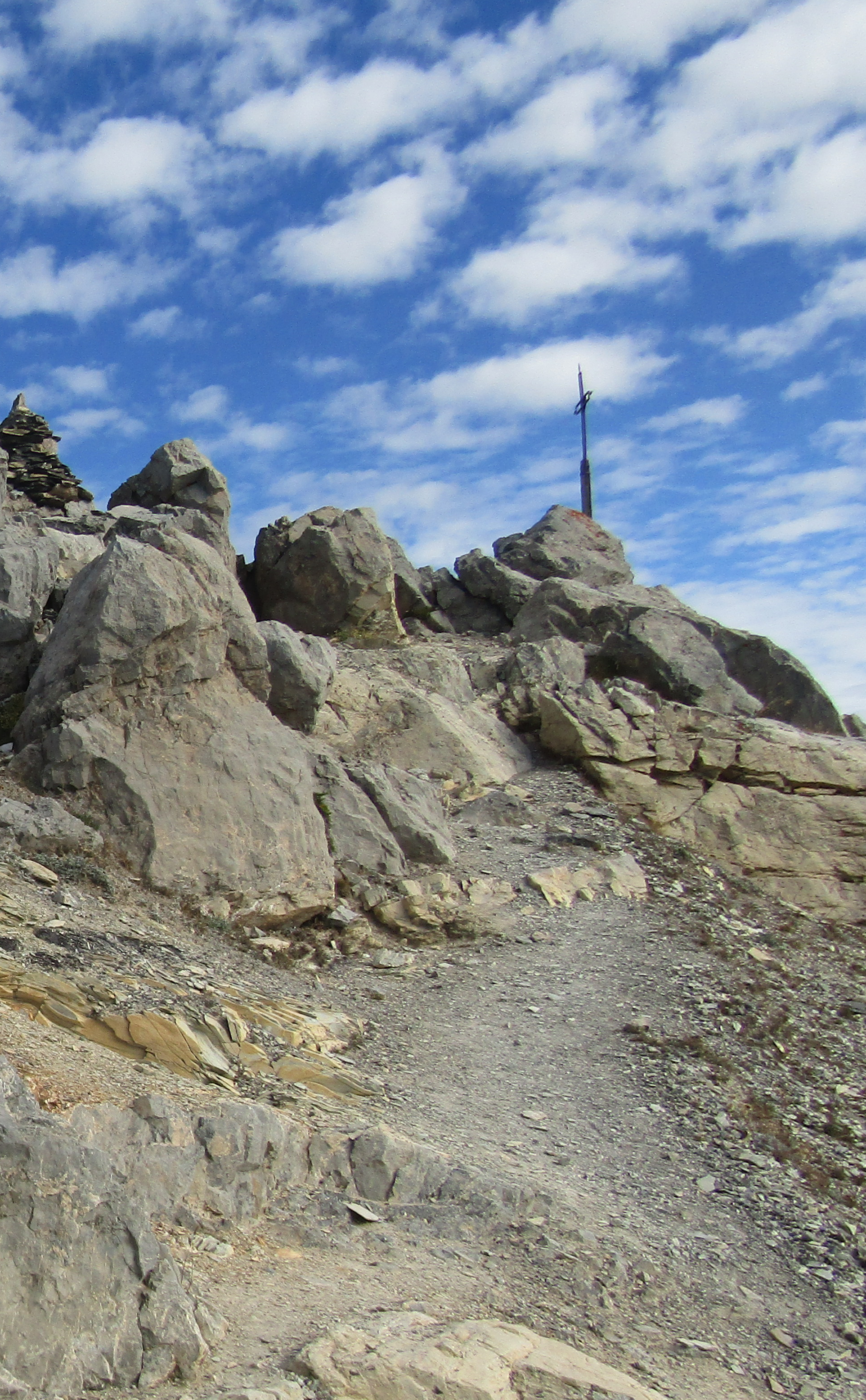 Grand Aréa (France, Cottian Alps): summit cross and cairn